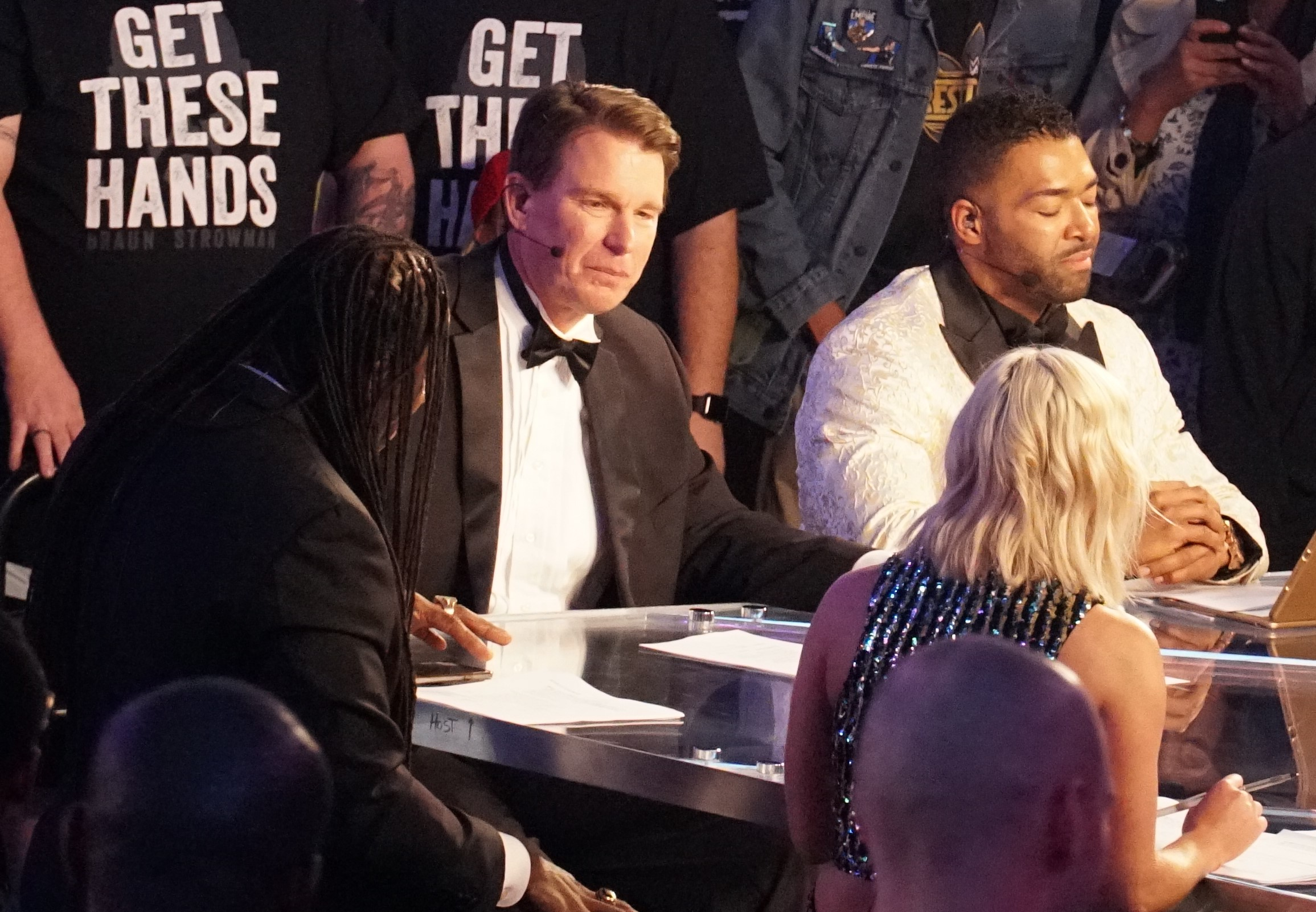 Booker T, John "Bradshaw" Layfield, and David Otunga at WrestleMania 34 in April 2018.